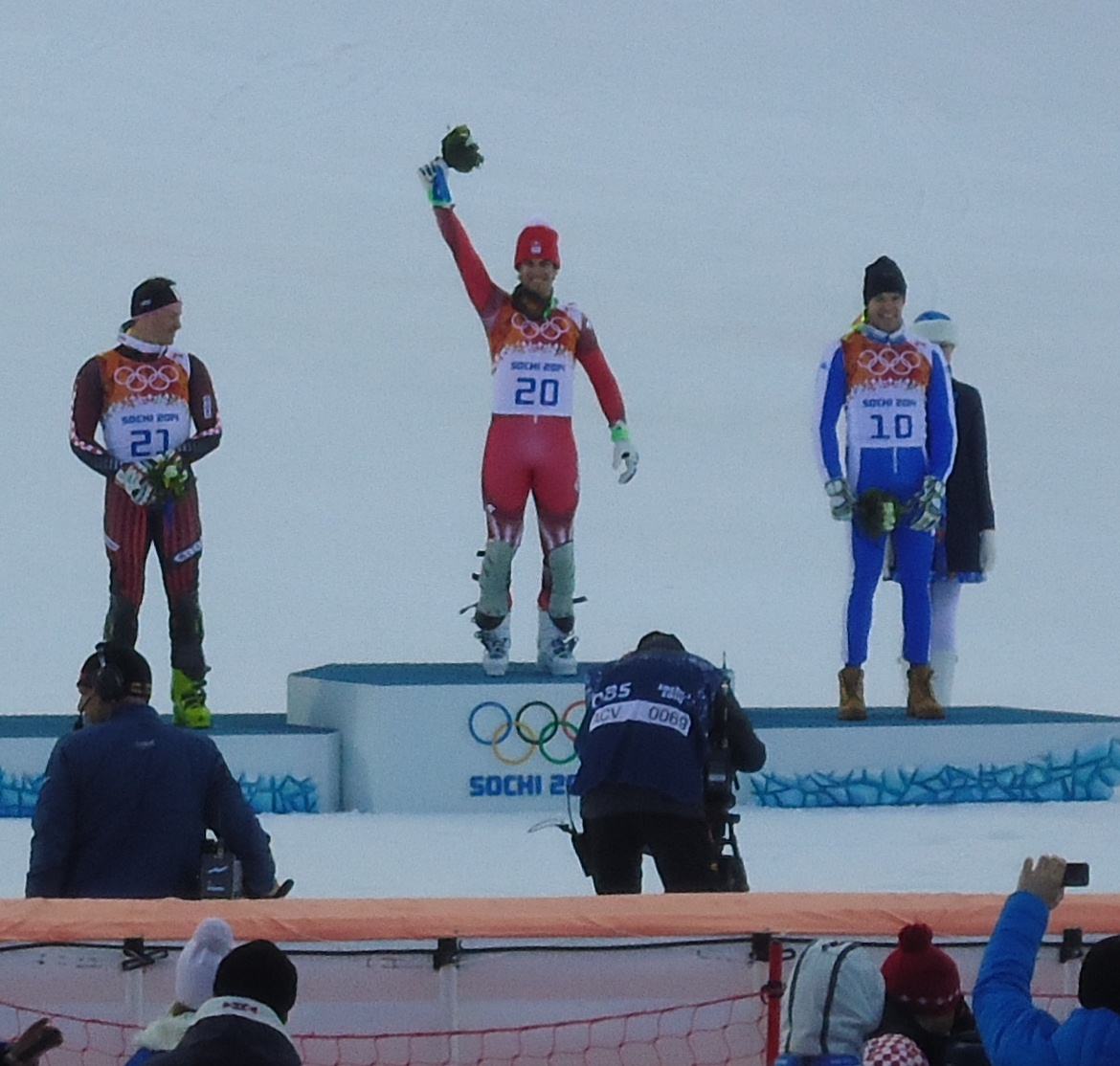 Sandro Viletta won a gold medal in a supercombined at the Olympic Games 2014 in Sochi. Silver - Iviсa Kostelic. Bronze - Christoph Innerhofer.